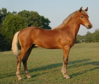 Phenotypic description of Silver colored horses. (Horse coat colors: Silver dapple gene) C. A Brown Silver Morgan horse. A genetically brown horse that shows the silver phenotype with the mane and tail diluted from black to white and the lower legs diluted from black to dark greyish.